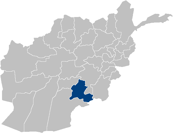 Location map for Zabul Province in Afghanistan. Original map source: Image:Afghanistan_provinces_blank.png